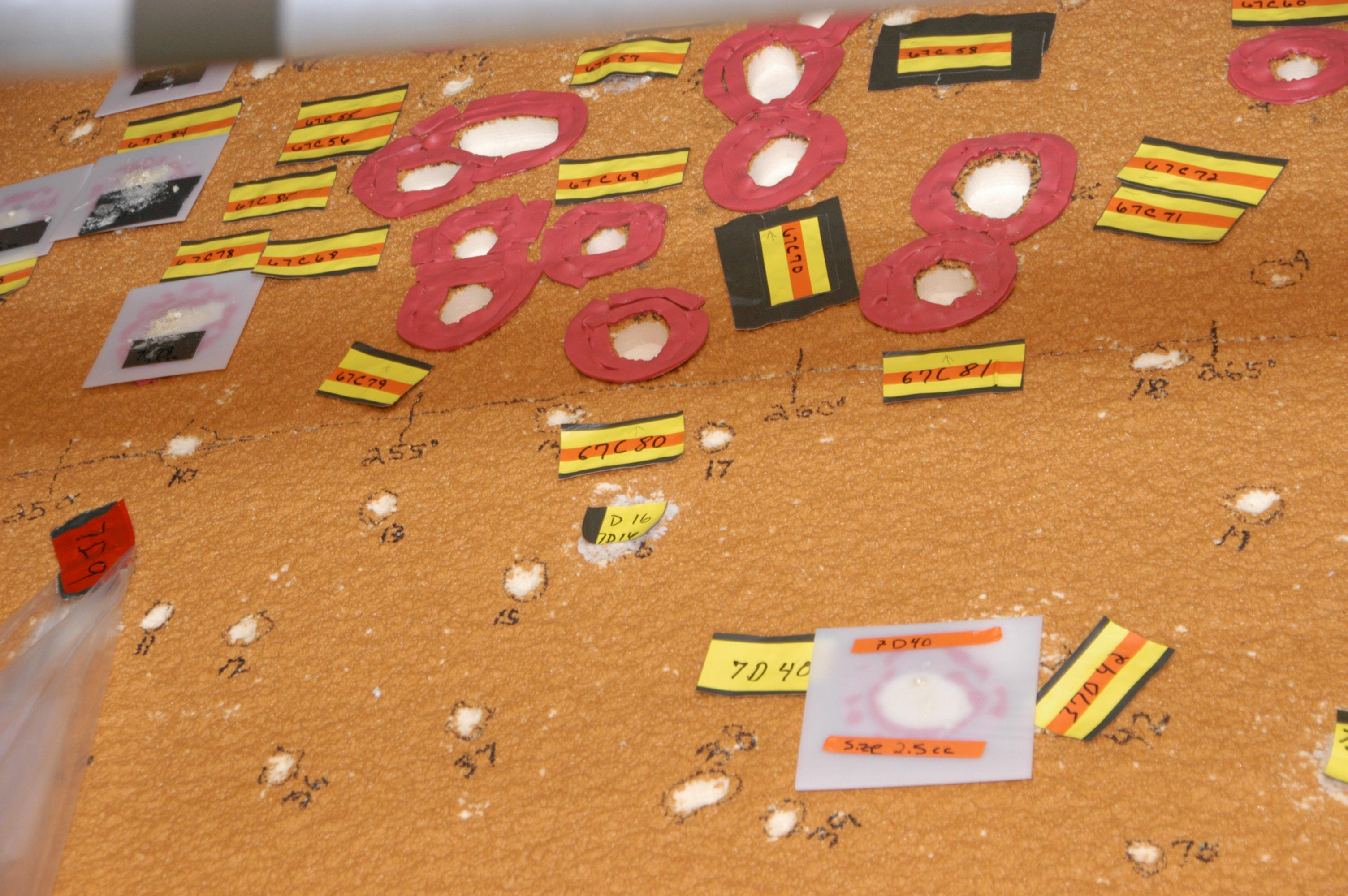 In the Vehicle Assembly Building, markers show the hail damage being repaired on the external tank of Space Shuttle Atlantis. The white hole with a red circle around it is a hole prepared for molding and material application. The red material is sealant tape so the mold doesn't leak when the foam rises against the mold. The white/translucent square mold is an area where the foam has been applied and the foam has risen and cured against the mold surface